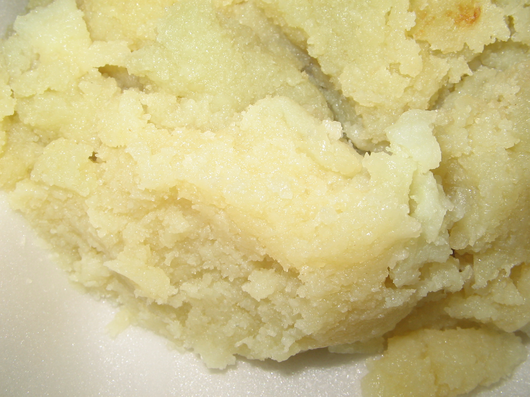 Malaysian tradisional food, tahi itik.